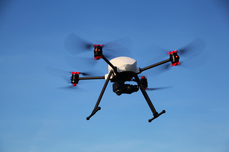 OnyxStar XENA-8F coax foldable and pliable drone